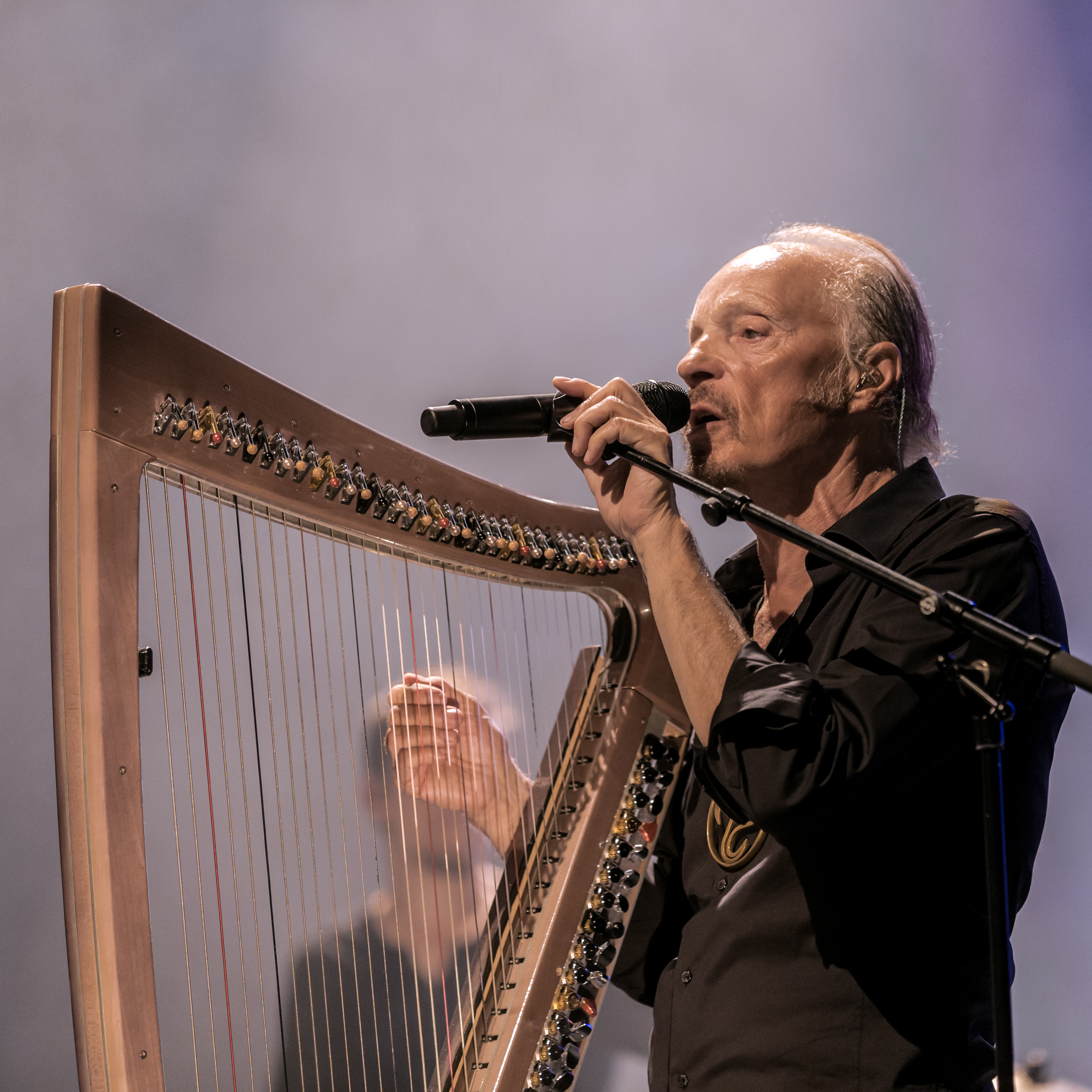 Breton harpist Alan Stivell in live during Cornouaille Festival (Quimper, Brittany) July 22, 2016.